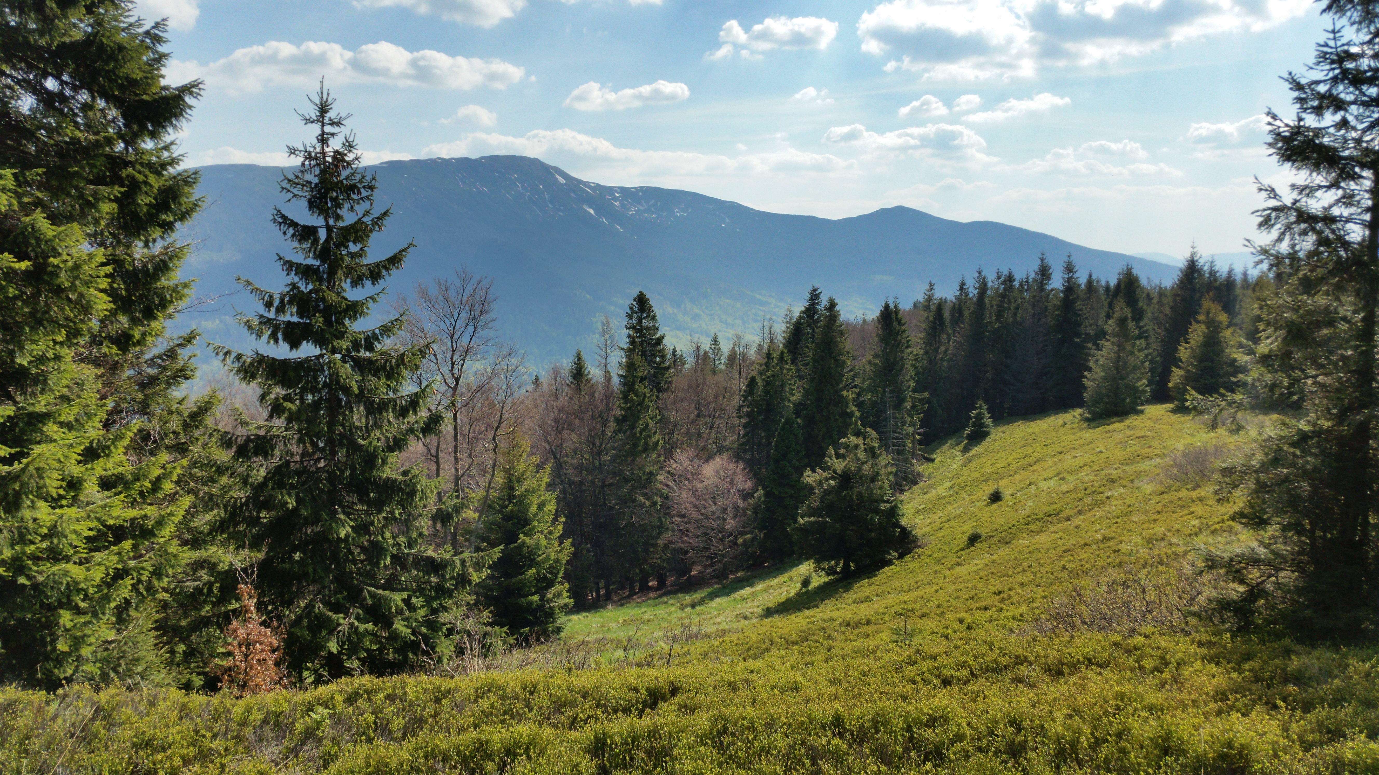 Widok z Polany Brożki w stronę Babiej Góry.